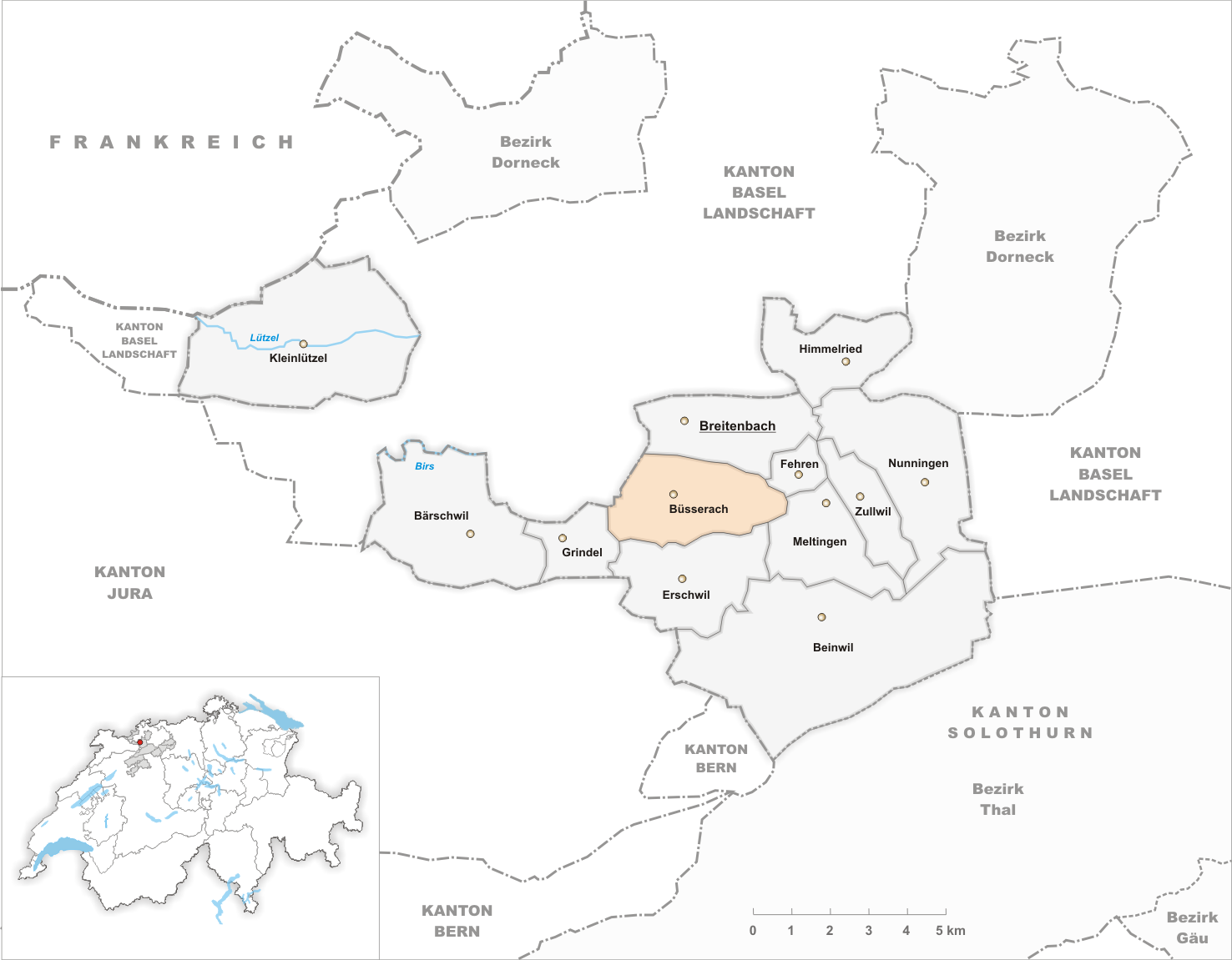 Municipality Büsserach